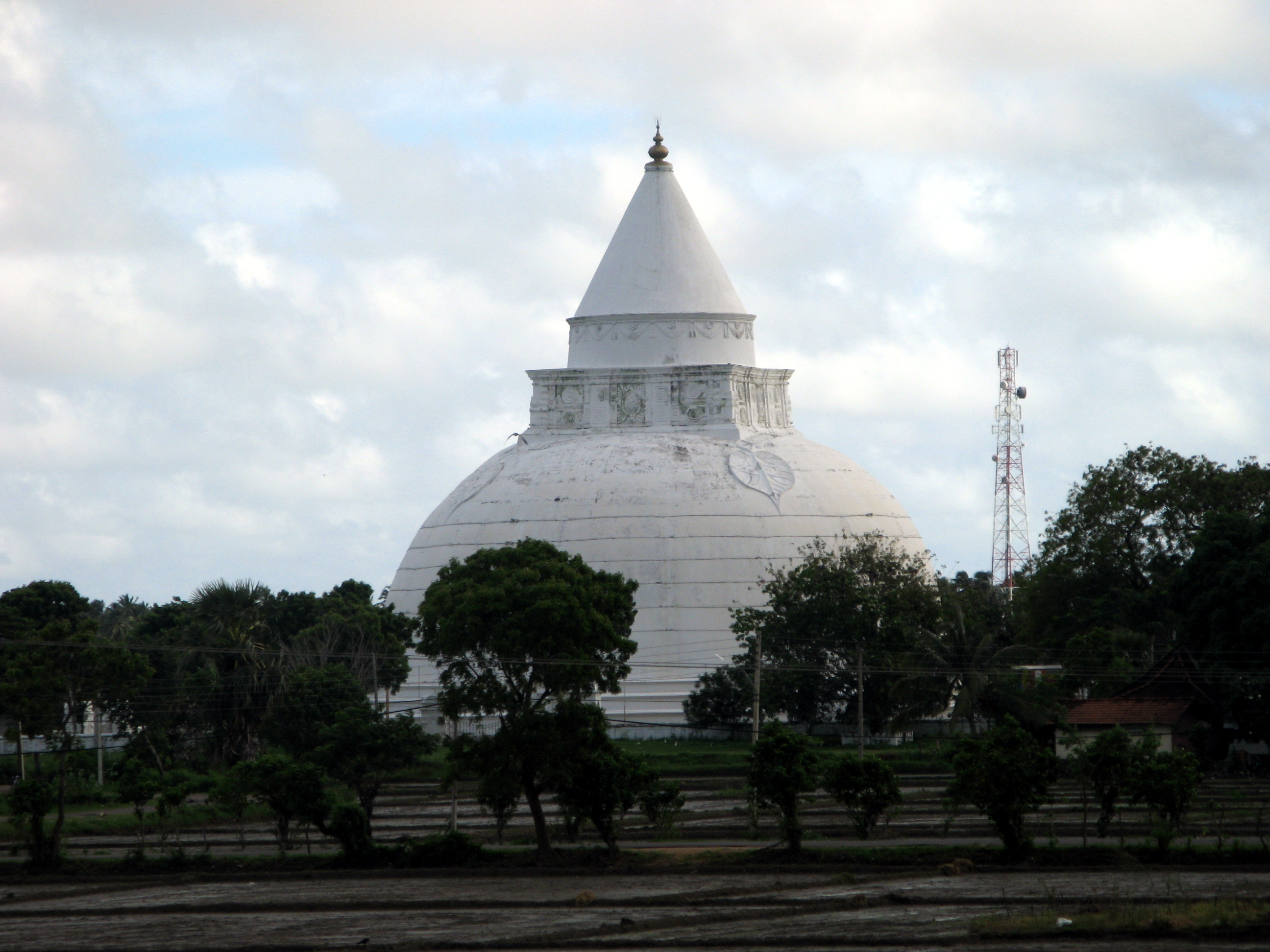 The original stupa dates to the 2d century BC, although this modern incarnation has been criticized for its top-heavy restoration. A microwave tower, to the right, adds an interesting contrast between historical and modern priorities.